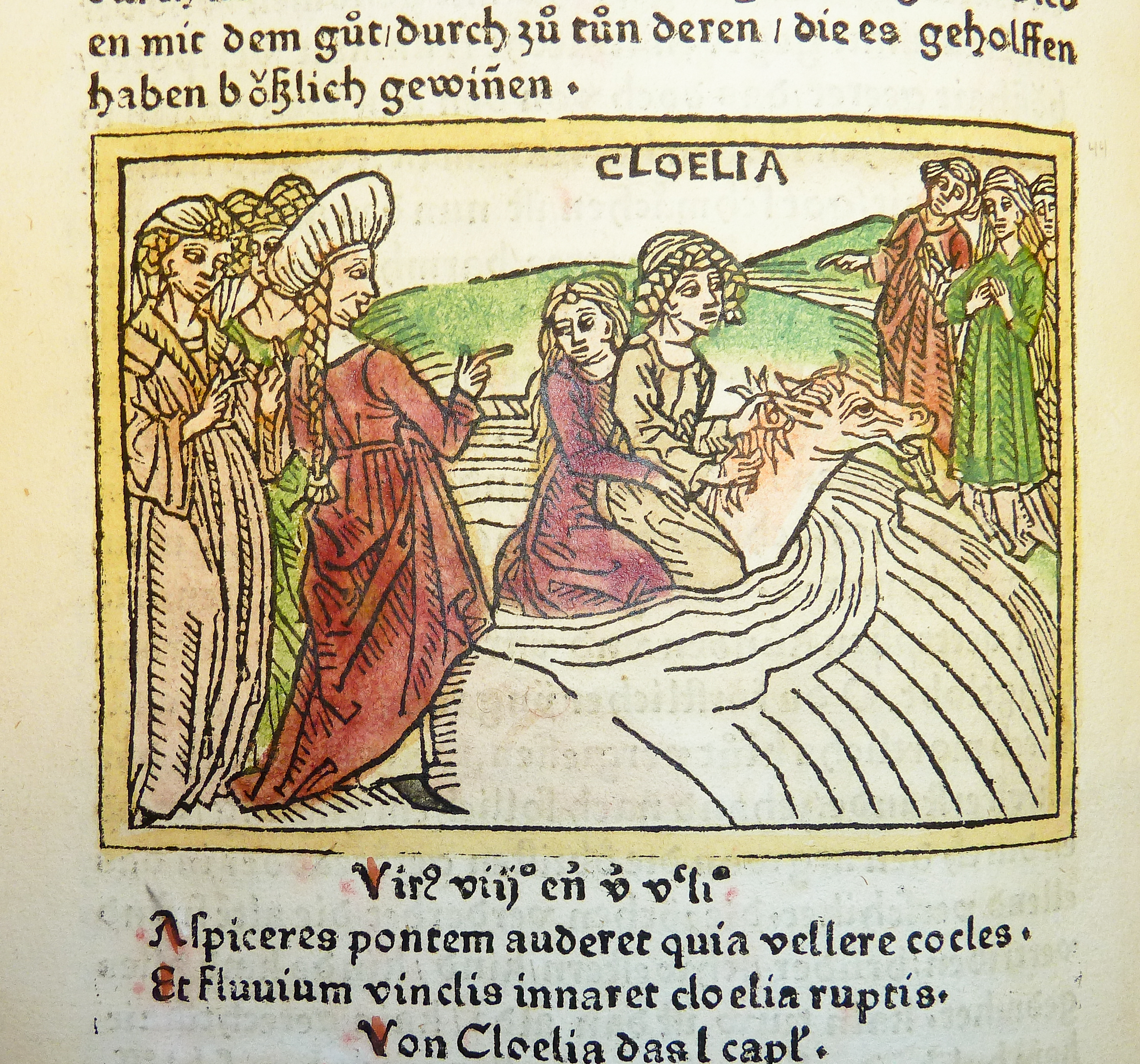 Woodcut illustration (leaf [i]5v, f. lxxv) of Cloelia's escape from Lars Porsena, hand-colored in red, green, yellow and black, from an incunable German translation by Heinrich Steinhöwel of Giovanni Boccaccio's De mulieribus claris, printed by Johannes Zainer at Ulm ca. 1474 (cf. ISTC ib00720000). One of 76 woodcut illustrations (1 on leaf [e]8v dated 1473), each 80 x 110 mm., depicting scenes from the life of the women chronicled (for a full list of subjects, cf. W.L. Schreiber, Handbuch der Holz- und Metallschnitte des XV. Jahrhunderts (Nendeln: Kraus Reprints, 1969), no. 3506). "Pour la première moitie le nom se trouve inscrit à côte de la tête de chaque femme, pour le reste il es ajouté entre les deux réglettes. Il n'y en a que trois, qui n'ont qu'un seul trait carré."--Schreiber. Established form: Zainer, Johannes, ‡d d. 1541?. Established form: Cloelia, ǂd 6th cent. B.C. Penn Libraries call number: Inc B-720 All images from this book Penn Libraries catalog record